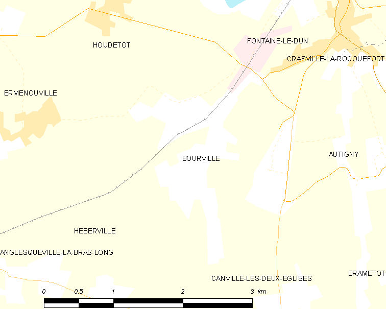 Map of French municipality Bourville